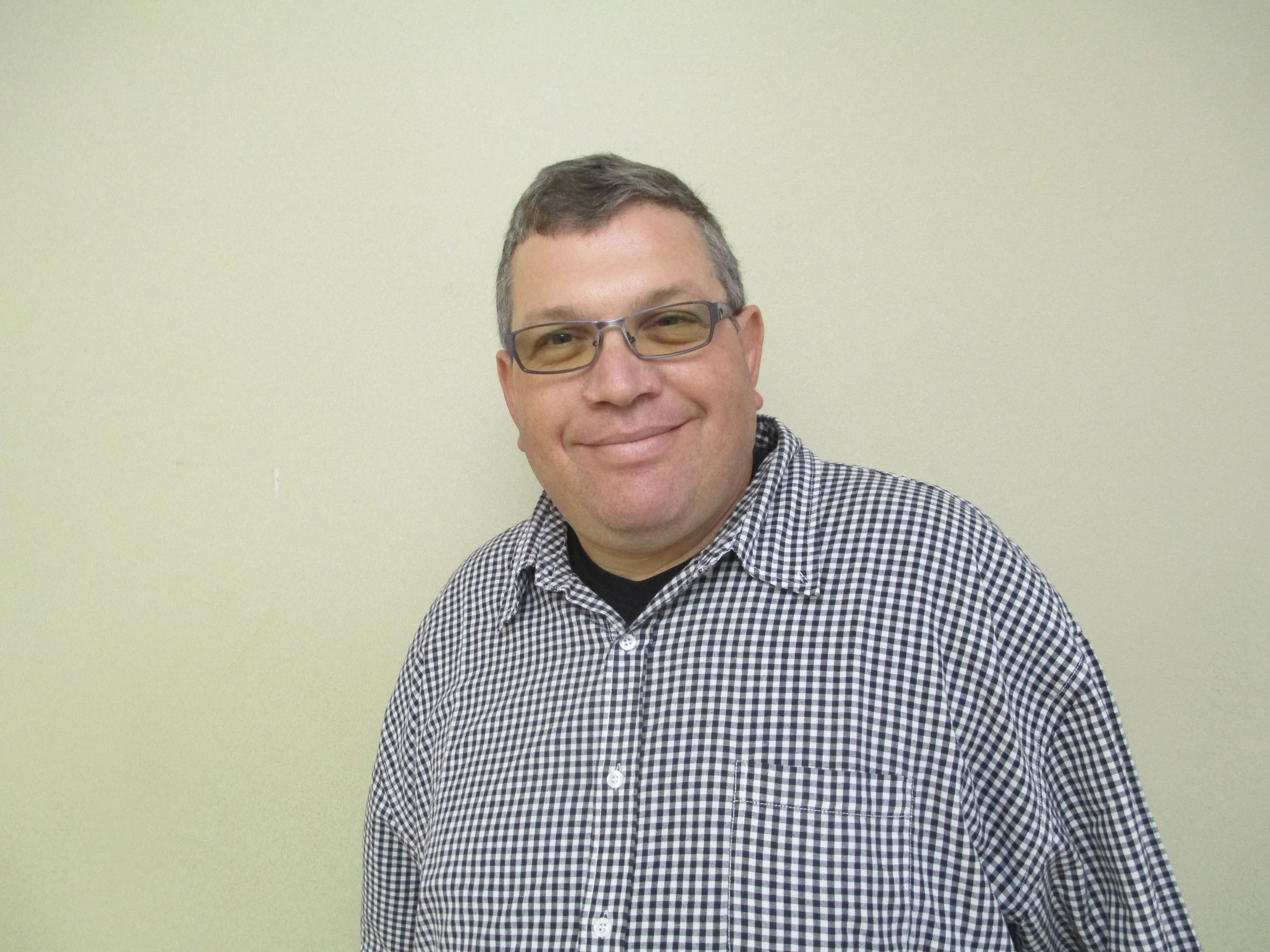 dr. izhak (zahy) ben-zion